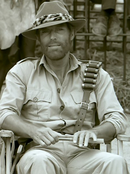 Still photographer Yoni S. Hamenachem and Richard Chamberlain on the set of King Solomon's Mines in Zimbabwe.